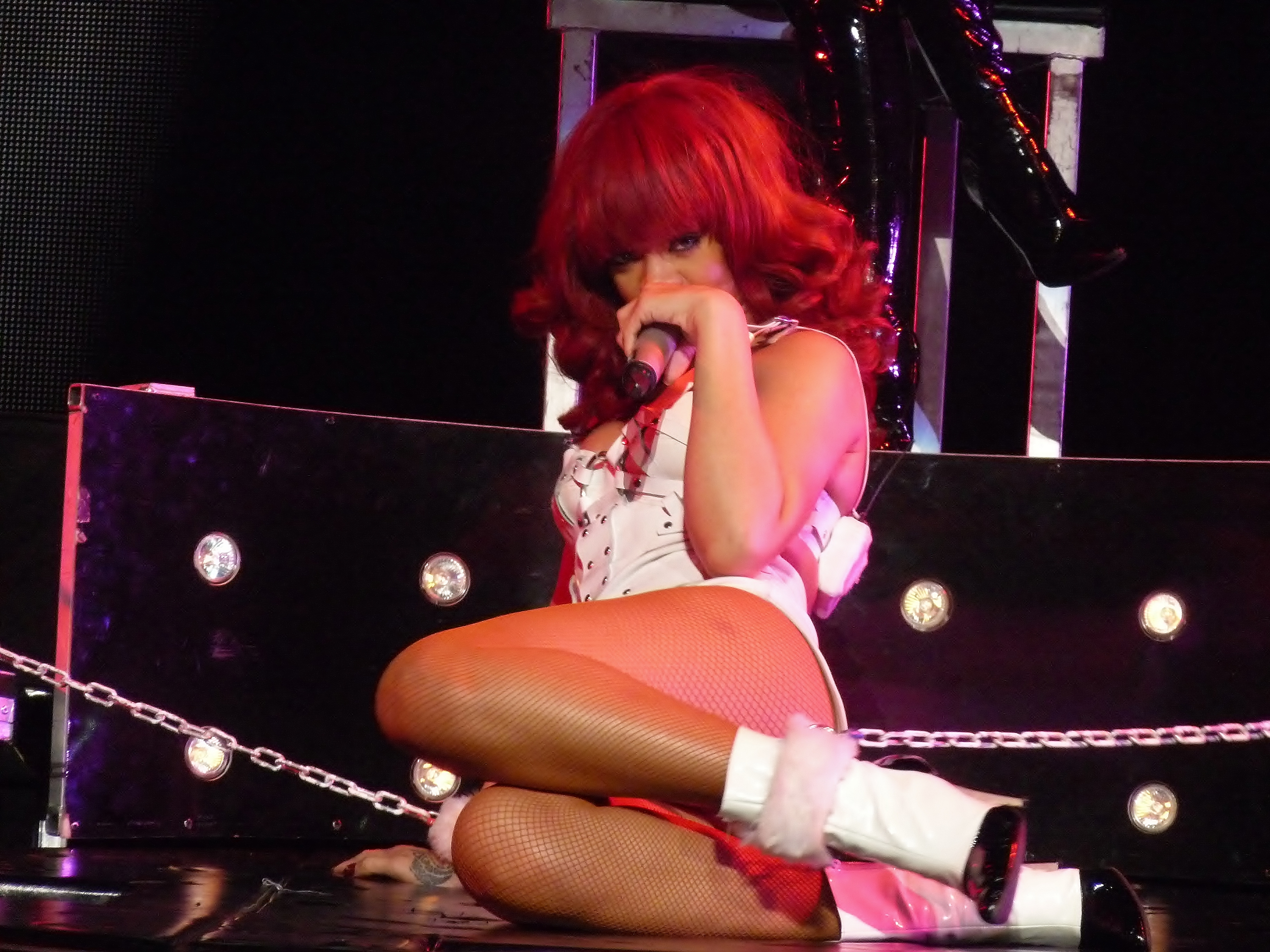 Rihanna live at Bankatlantic Center, Sunrise, Florida, on her tour The LOUD Tour. 14th July 2011